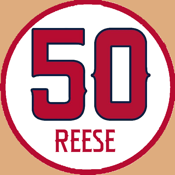 Illustration of Jimmie Reese's Retired Angels Number